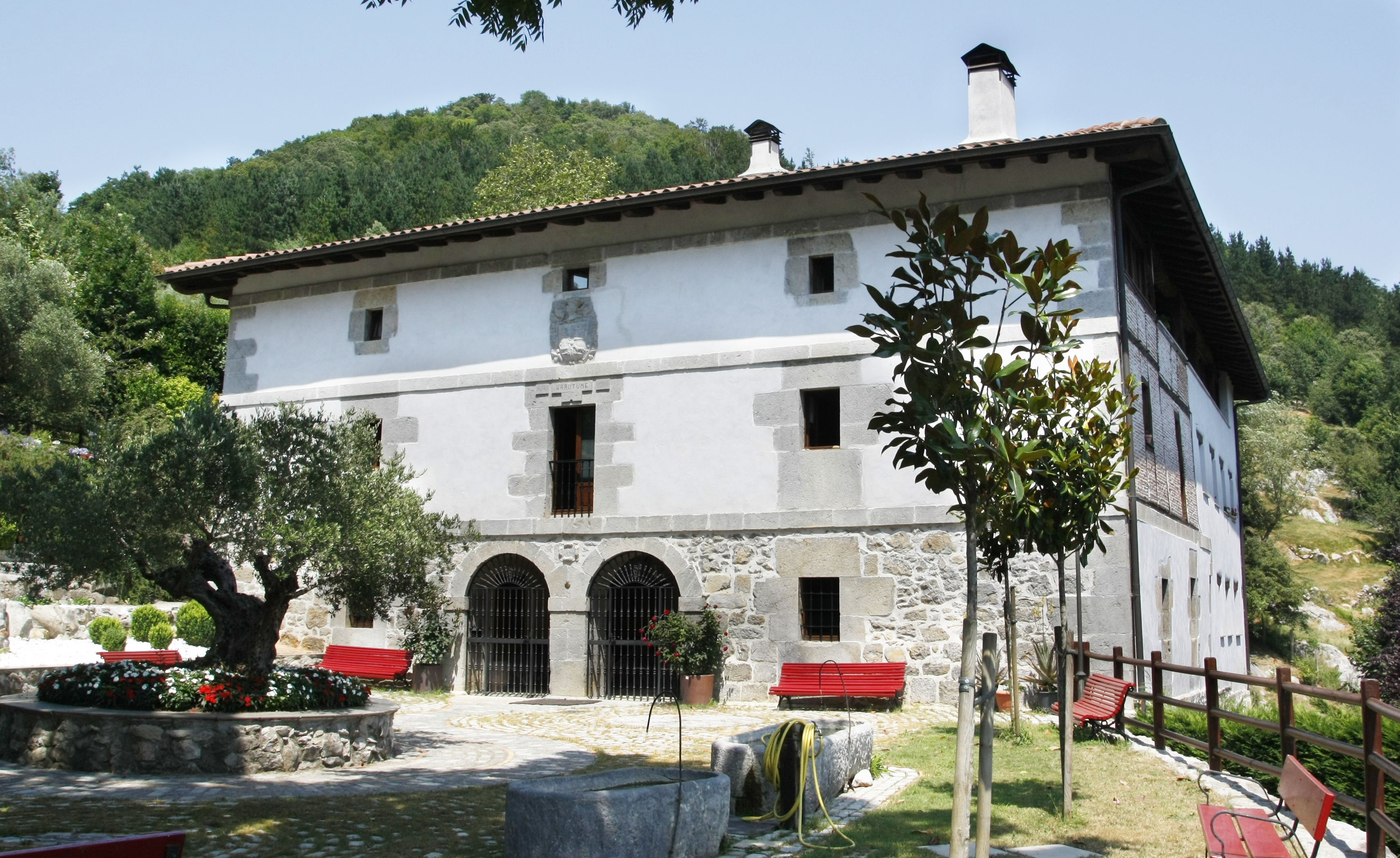 Urrutume farm - Albiztur